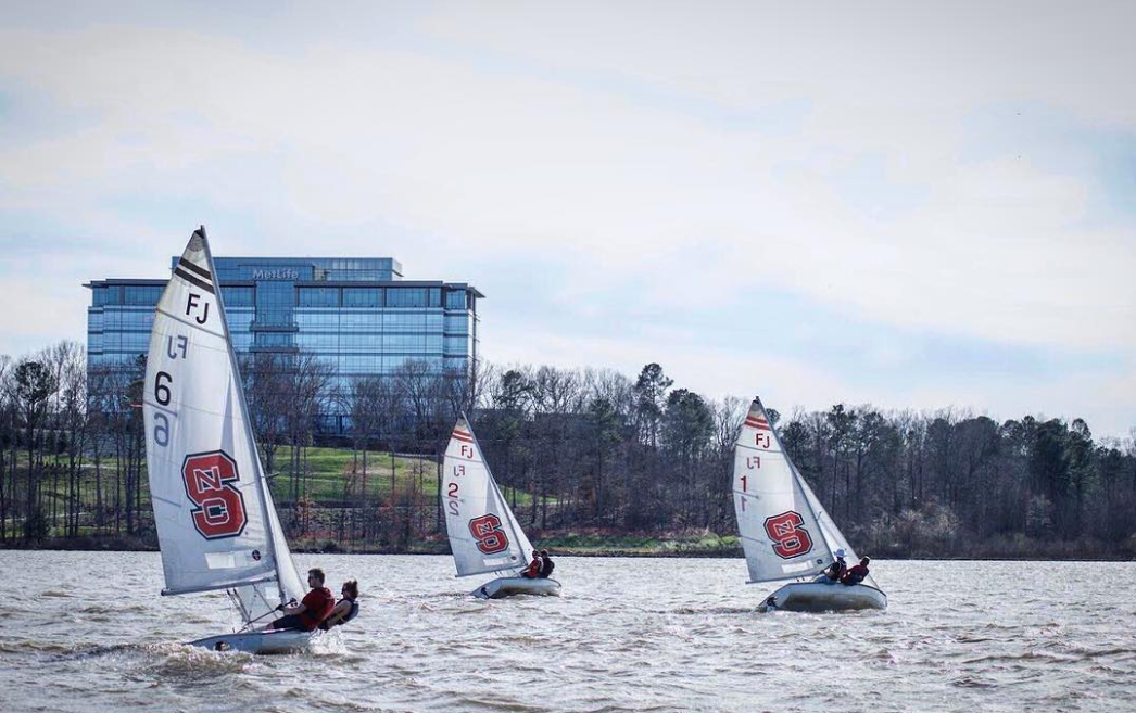 Sailboats from NC State University's Sailing Team practicing on Lake Crabtree with the MetLife corporate buildings in the background.